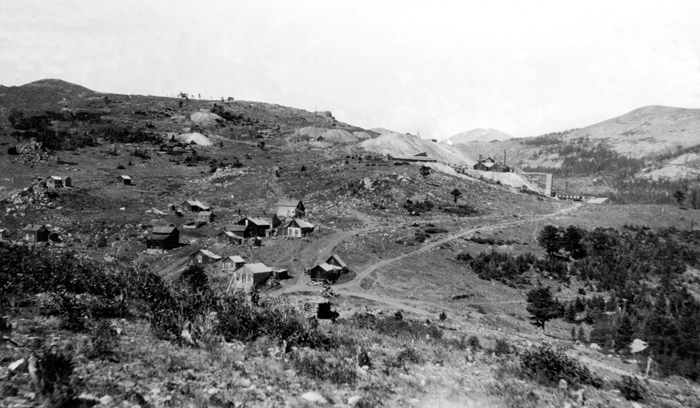 Town of Caribou, Colorado, United States of America.